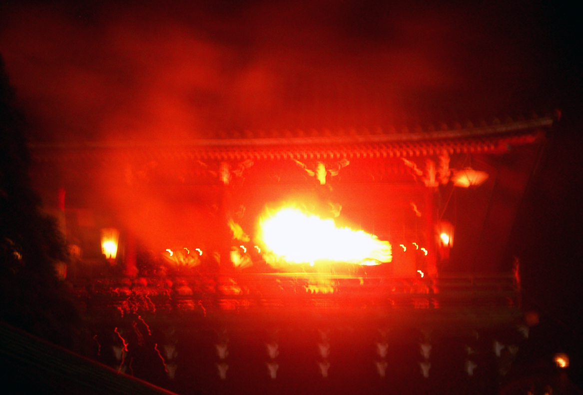 This is the main ritual of the festival. Young monks carry torches across the Nigatsu-do balcony.